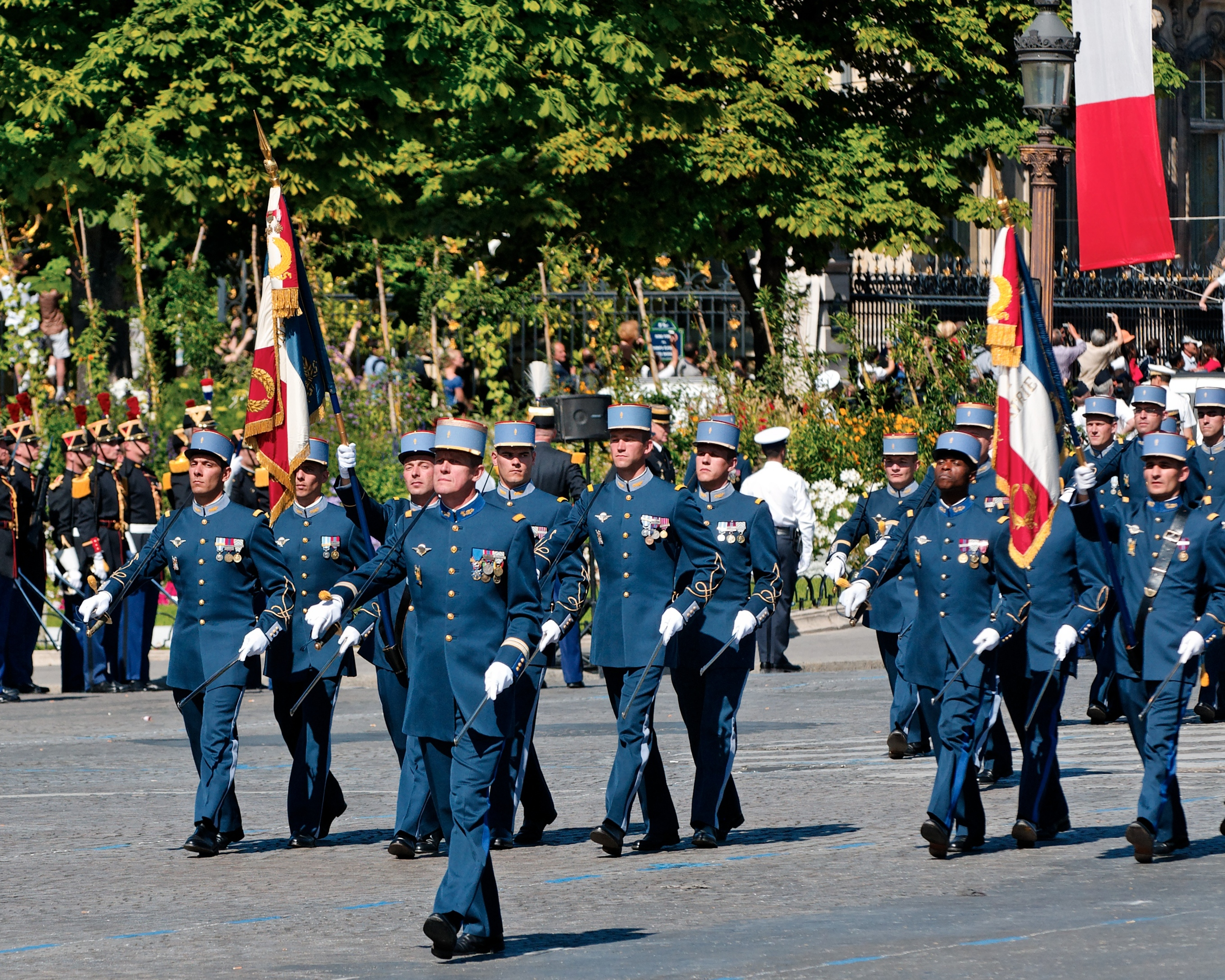 Colour guards of EMIA and EMCTA (military academies for NCOs), Bastille Day 2008 military parade on the Champs-Élysées, Paris.